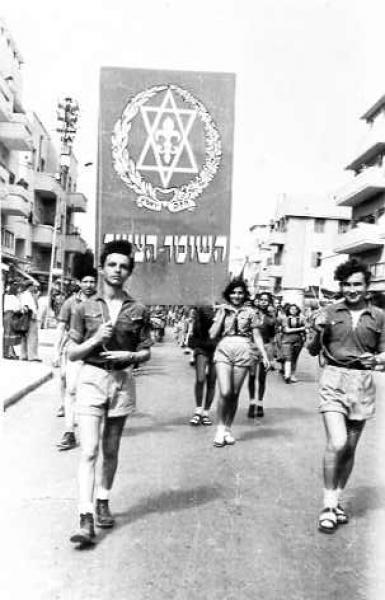 Hashomer Hatzair May Day march, Haifa, the 50ies